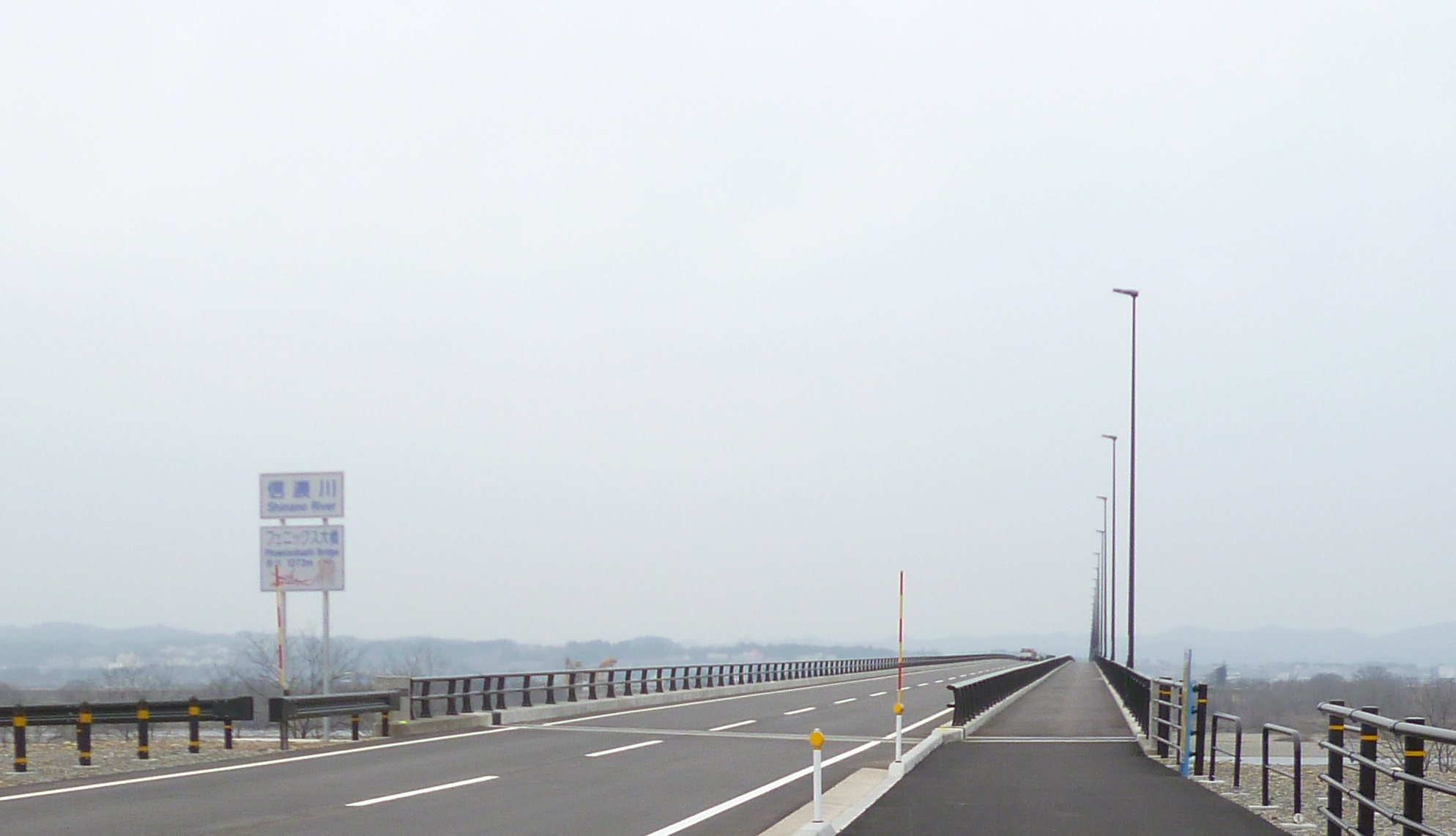 Phoenix Ohashi Bridge